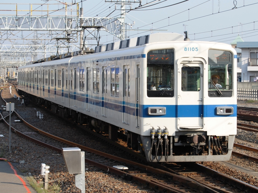 Tobu 8000 series EMU set 81105 at Shin-Tochigi Station